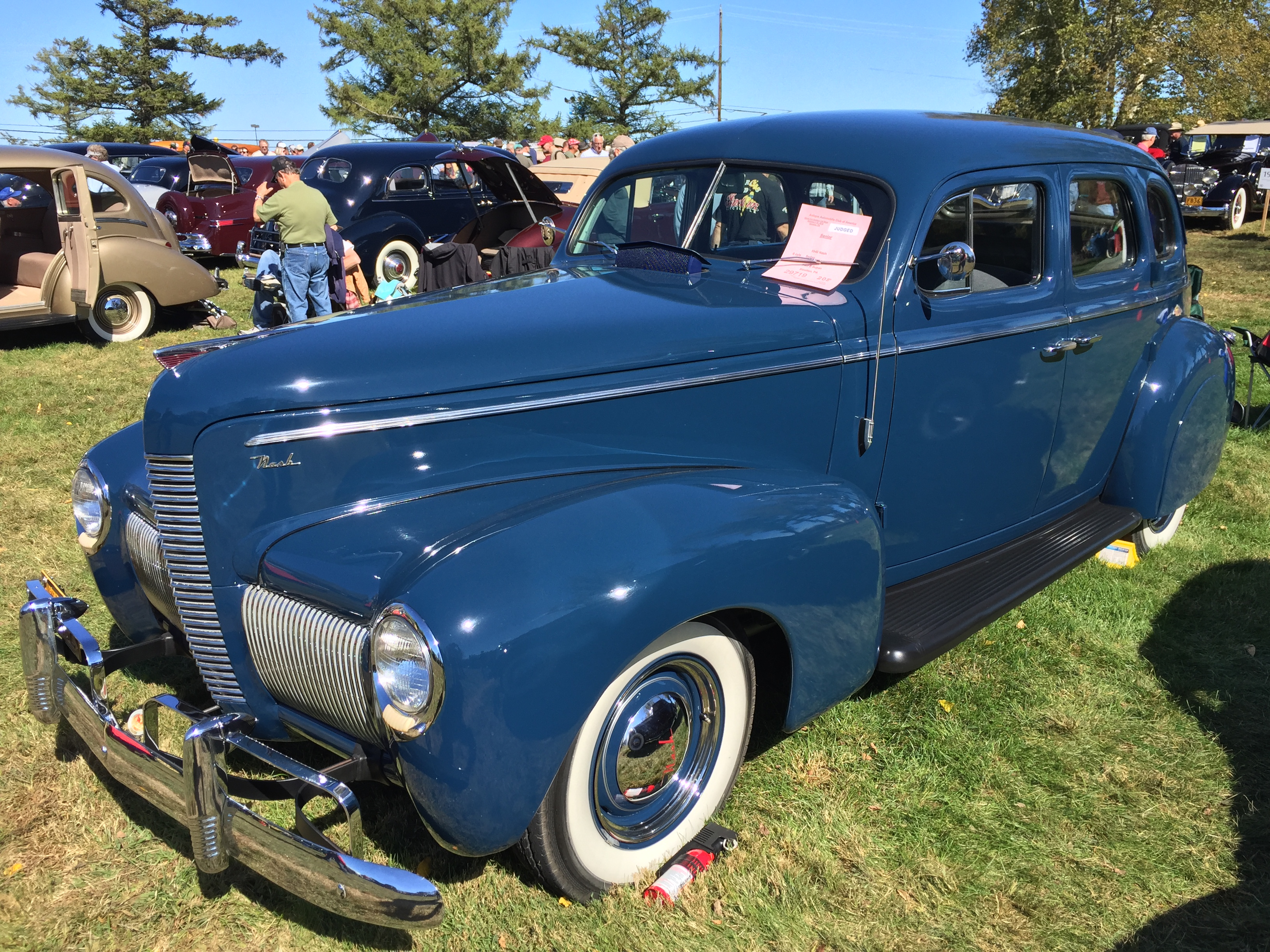 1940 Nash Ambassador Six. This is the four-door Trunk Back Sedan model (a fastback 4-door was also available, as well as two-door body styles including convertible). Fully integrated with the body, this visually recalled the add-on trunks of the 1920s. This model rides on a 121-inch wheelbase (125 for the more-luxurious Ambassador Eight). All Nashes were powered by twin ignition engines with two spark plugs per cylinder. This car has the 234.8 cubic inch 105 bhp straight six with seven-main-bearing crankshaft. Nash Ambassadors were up-market cars and came well-equipped with standards that included sumptuously upholstered interiors with passenger assist straps, door armrests, rear seat robe cord; dual windshield wipers and sun visors; locks for steering, ignition, and glovebox, etc.The 1940's features a revised front end with new round, sealed-beam headlamps adopted by most U.S. cars that year.Picture taken on the show field of the Antique Automobile Club of America (AACA) 2015 Hershey meet that is held every October in Pennsylvania.